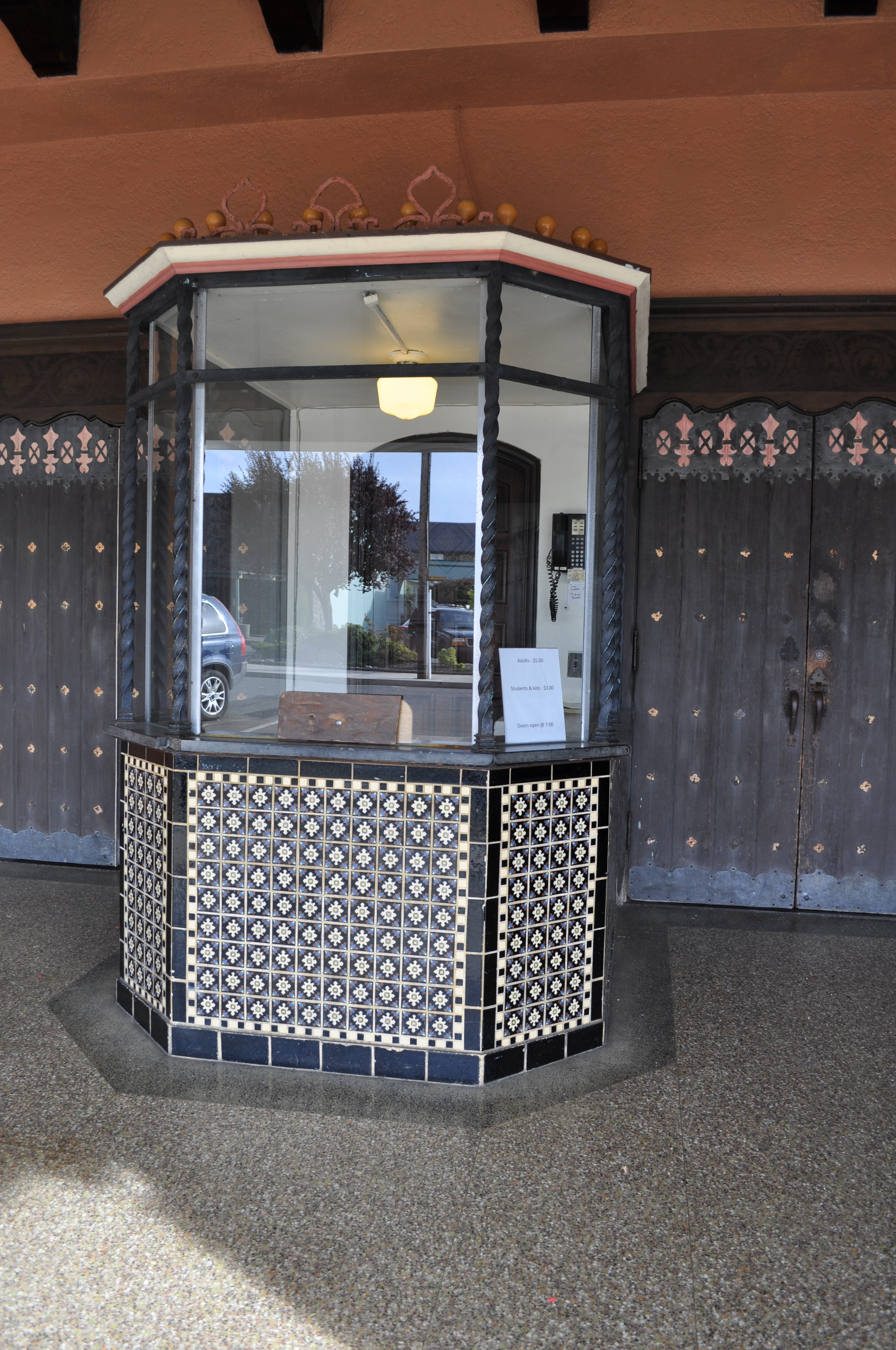 Box office, 7th Street Theatre, Hoquiam, Washington, USA.